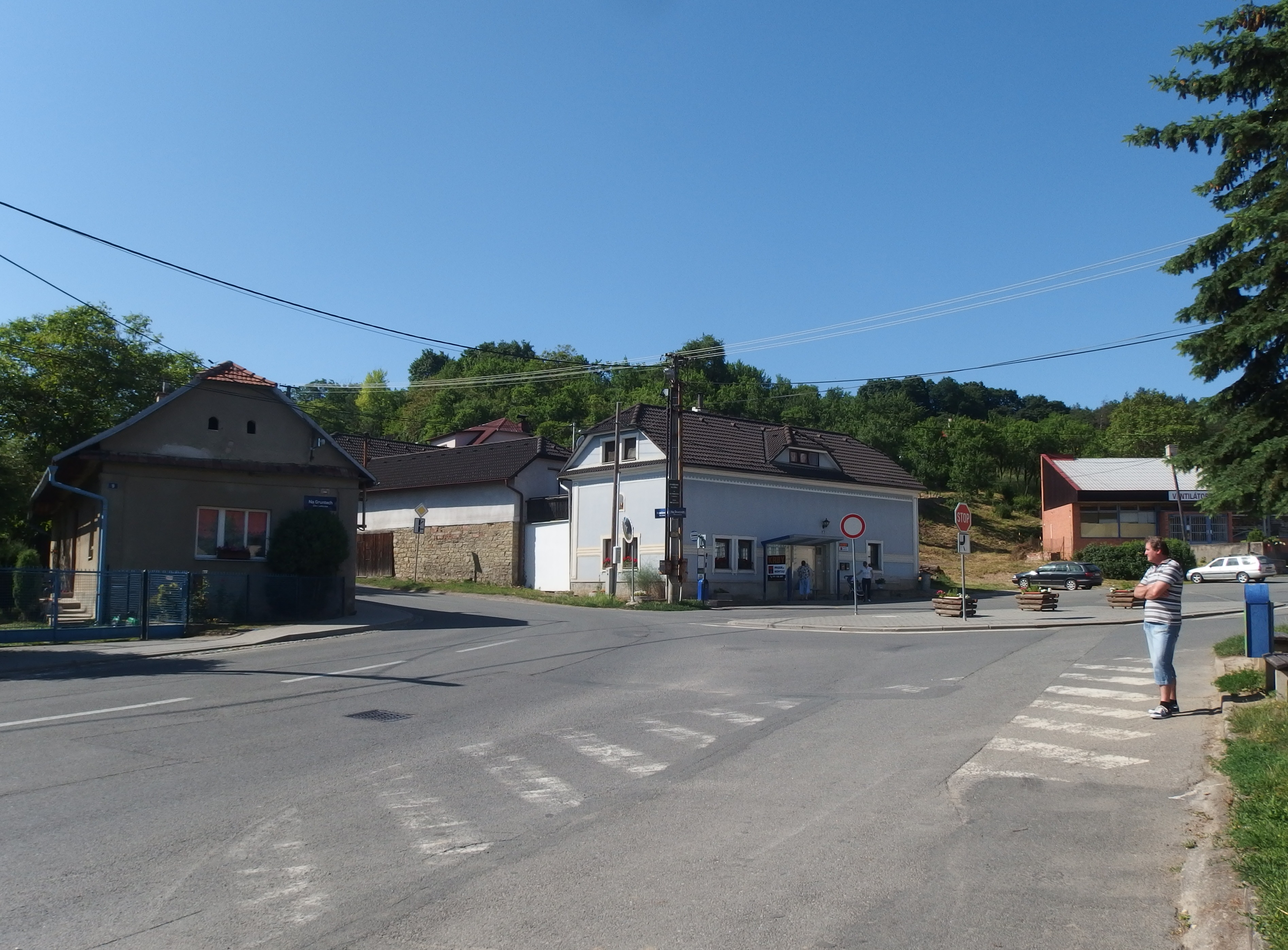 Zlín, Czech republic, part Lužkovice.